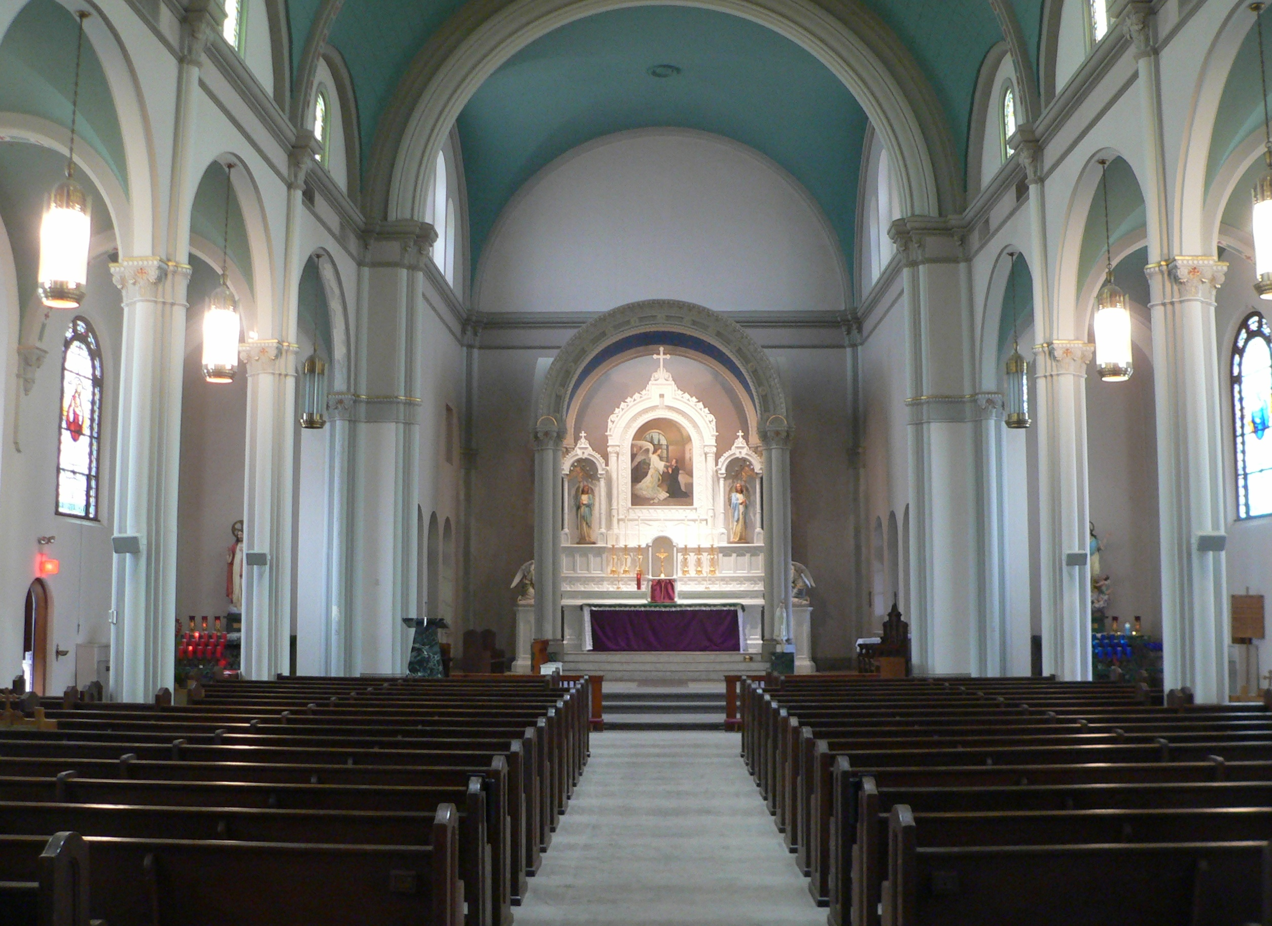 Immaculate Conception Church, located at 2708 S. 24th Street in Omaha, Nebraska: interior, facing west.